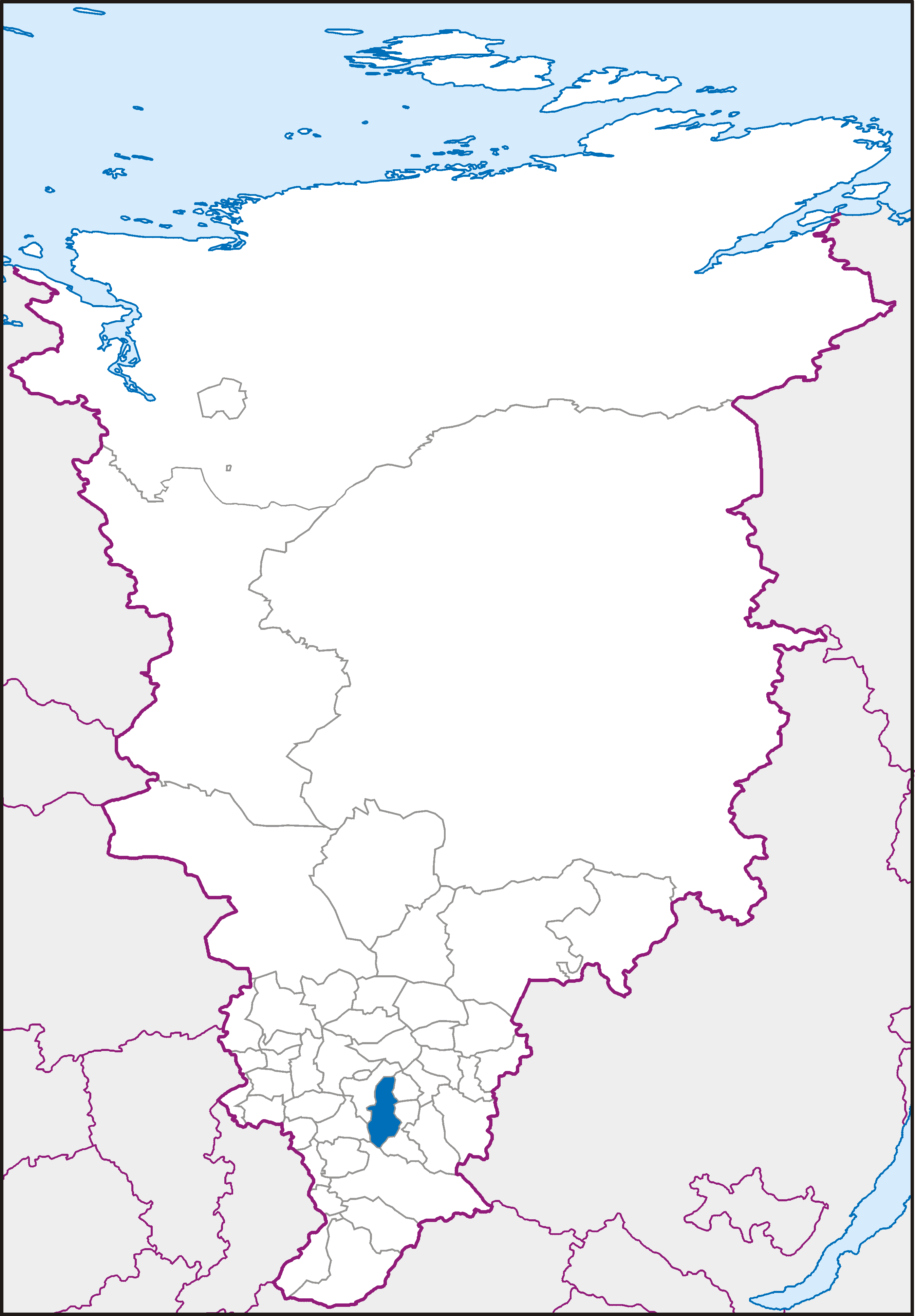 Map of Krasnoyarsk Krai in Albers Equal-Area Conic projection (Central Meridian = 95° E)